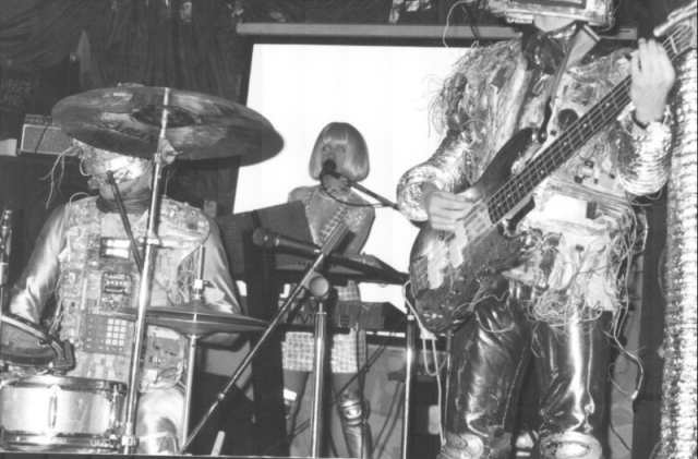 Servotron in a live performance. The Chukker, Tuscaloosa